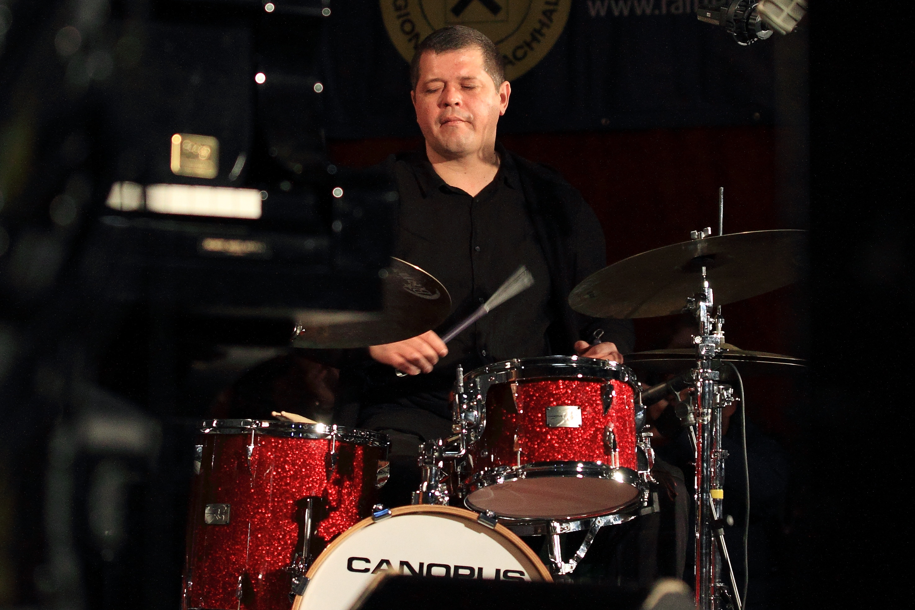 Azar Lawrence "Tribute to McCoy Tyner" at INNtöne Jazzfestival, Austria 2016.